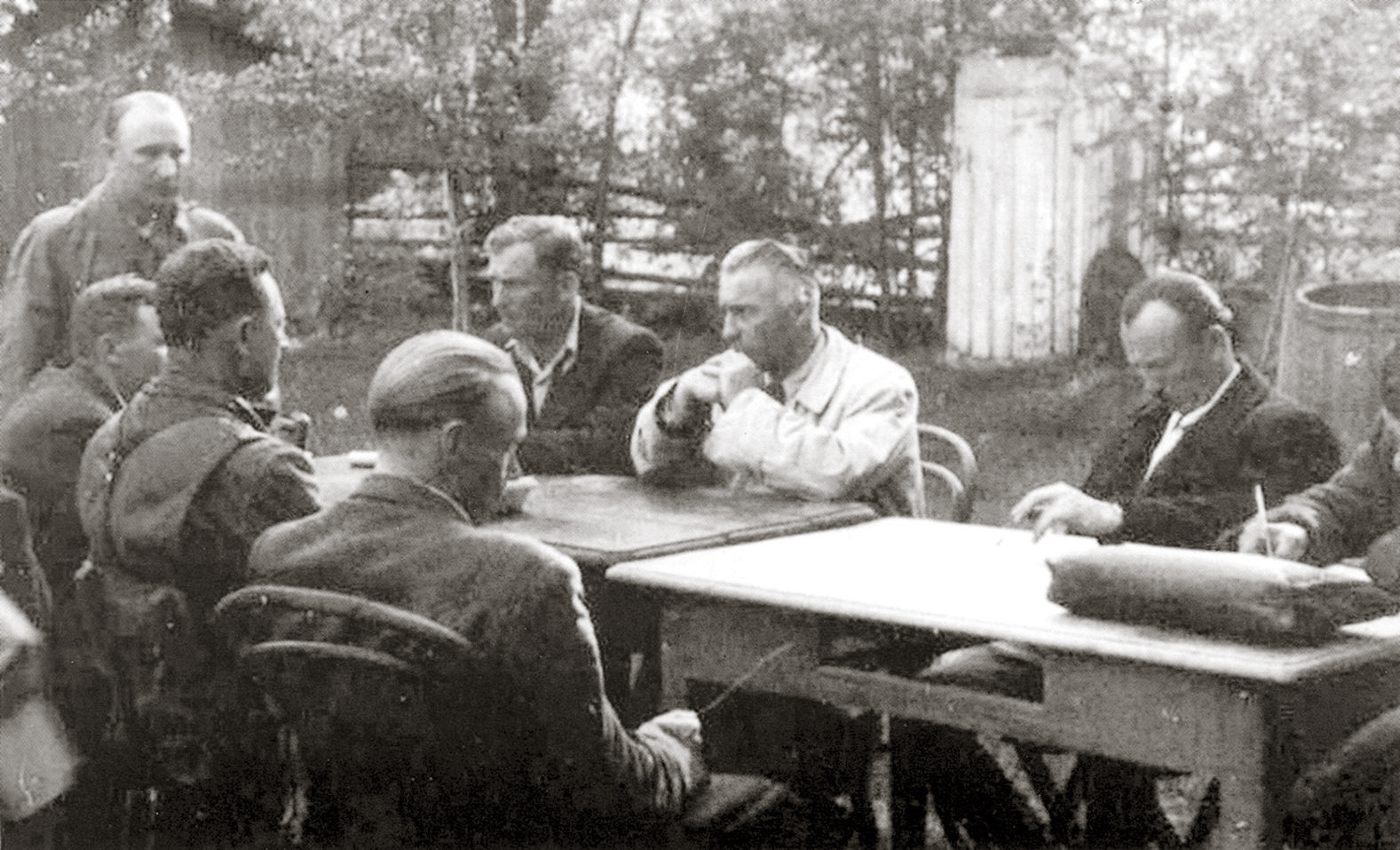 Spotkanie AK-WiN i UHWR, OUN i UPA koło Rudy Różanieckiej 21 maja 1945. Od lewej stoi: kpr. Józef Borecki „Komar” – adiutant komendanta Obwodu AK–DSZ–WiN Tomaszów Lubelski, siedzą przodem od lewej: por. „Norbert”, kpt. Marian Gołębiewski „Irka” – inspektor Inspektoratu AK–DSZ–WiN Zamość, kpt. Stanisław Książek „Rota” oraz Mykoła Wynnyczuk „Kornijczuk”– prowidnyk II okręgu Organizacji Nacjonalistów Ukraińskich, od lewej siedzą tyłem: przedstawiciel Ukraińskiej Głównej Rady Wyzwoleńczej płk Jurij Łopatynski „Szejk”, Serhij Martyniuk „Hrab” oraz „Polakowski”